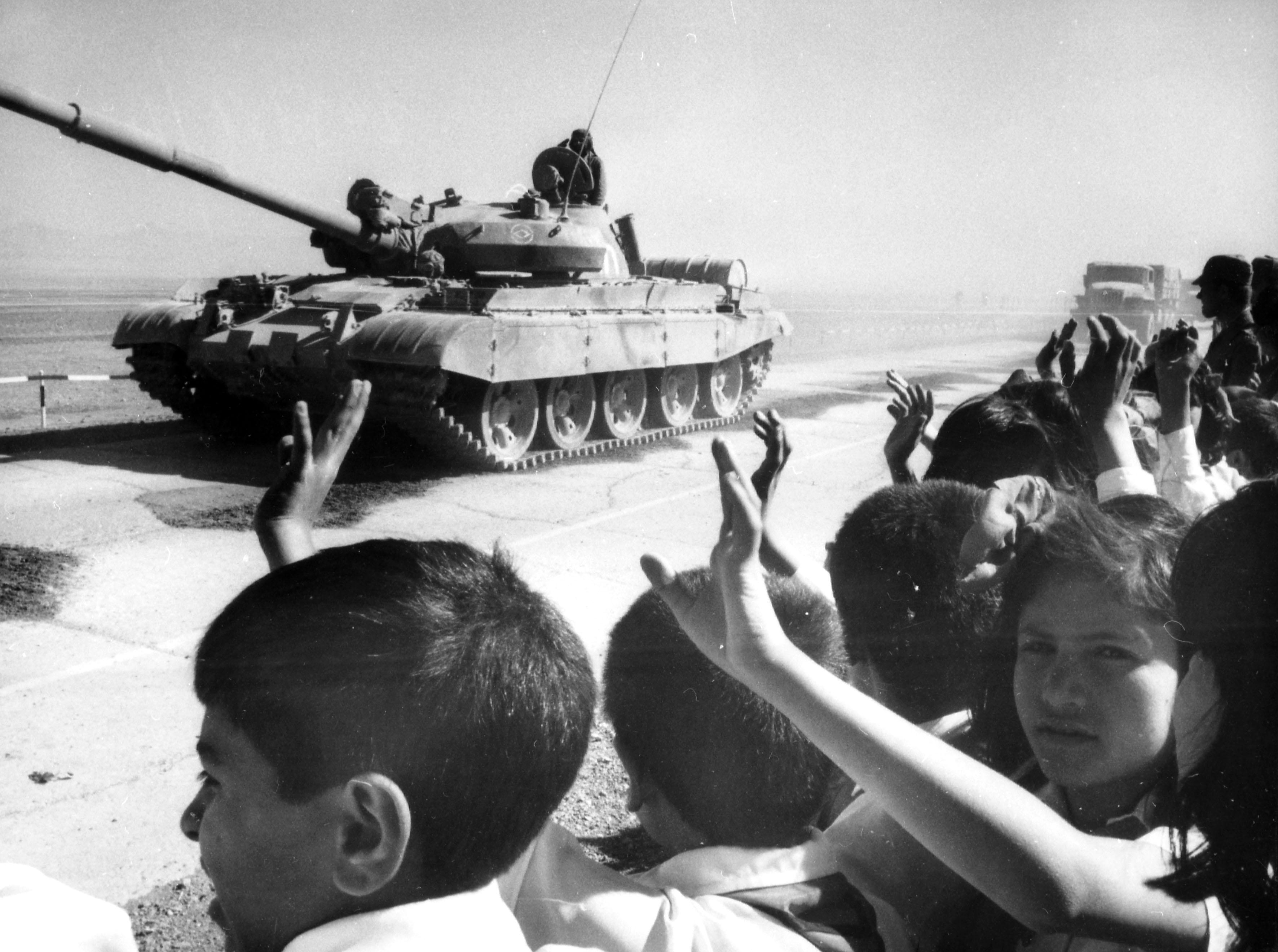 An up-armoured Soviet T-62M main battle tank, of the "Berlin" tank regiment, 5th Guards Motorized Rifle Division, leaving Afghanistan as part of the publicized withdrawal announced by Gorbachev in Vladivostok.